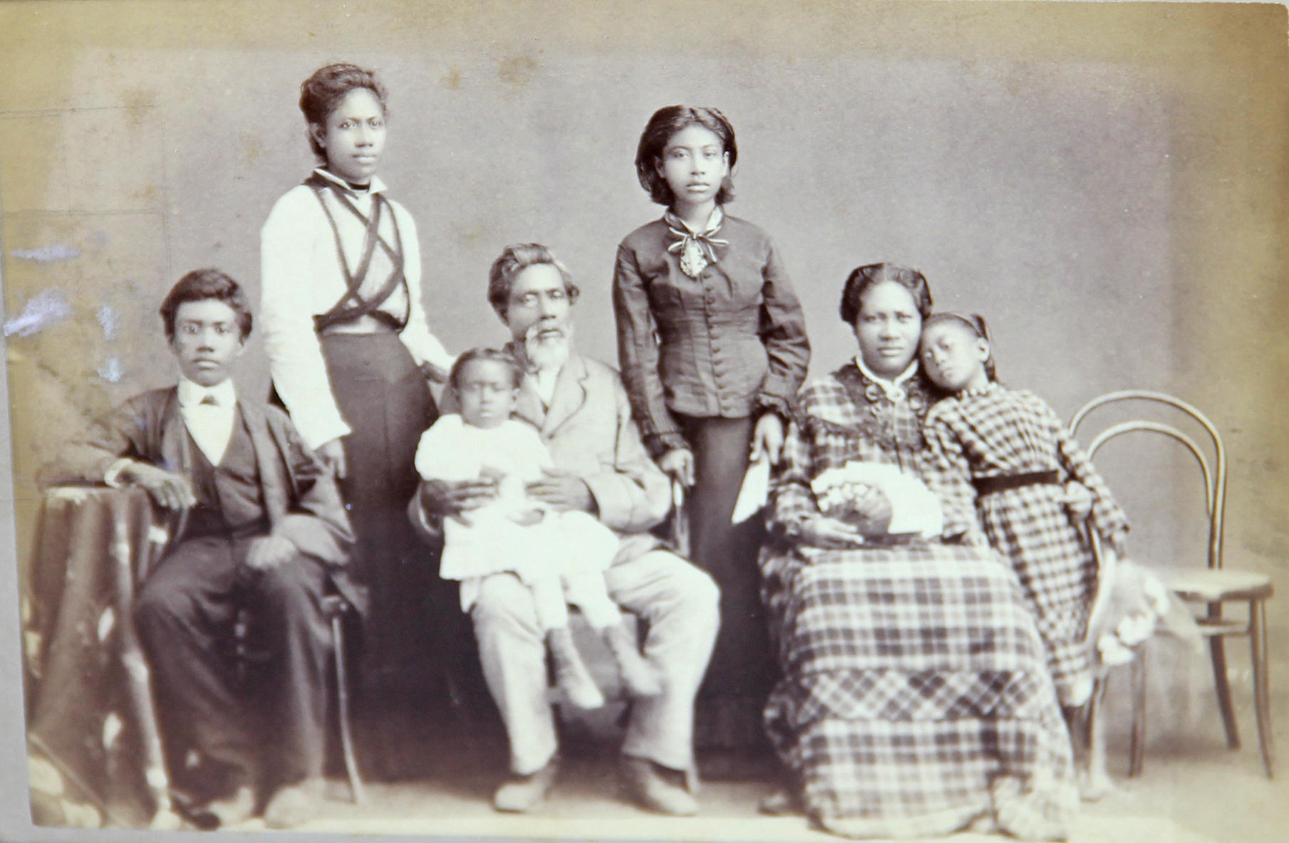 Cabinet card albumen print, 4 x 6 inches, mounted to board. Image of a large native missionary family. ANS to verso noting the family members and whereabouts dated 1878. Card from A. A. Montano's New Photographic Gallery, Honolulu.